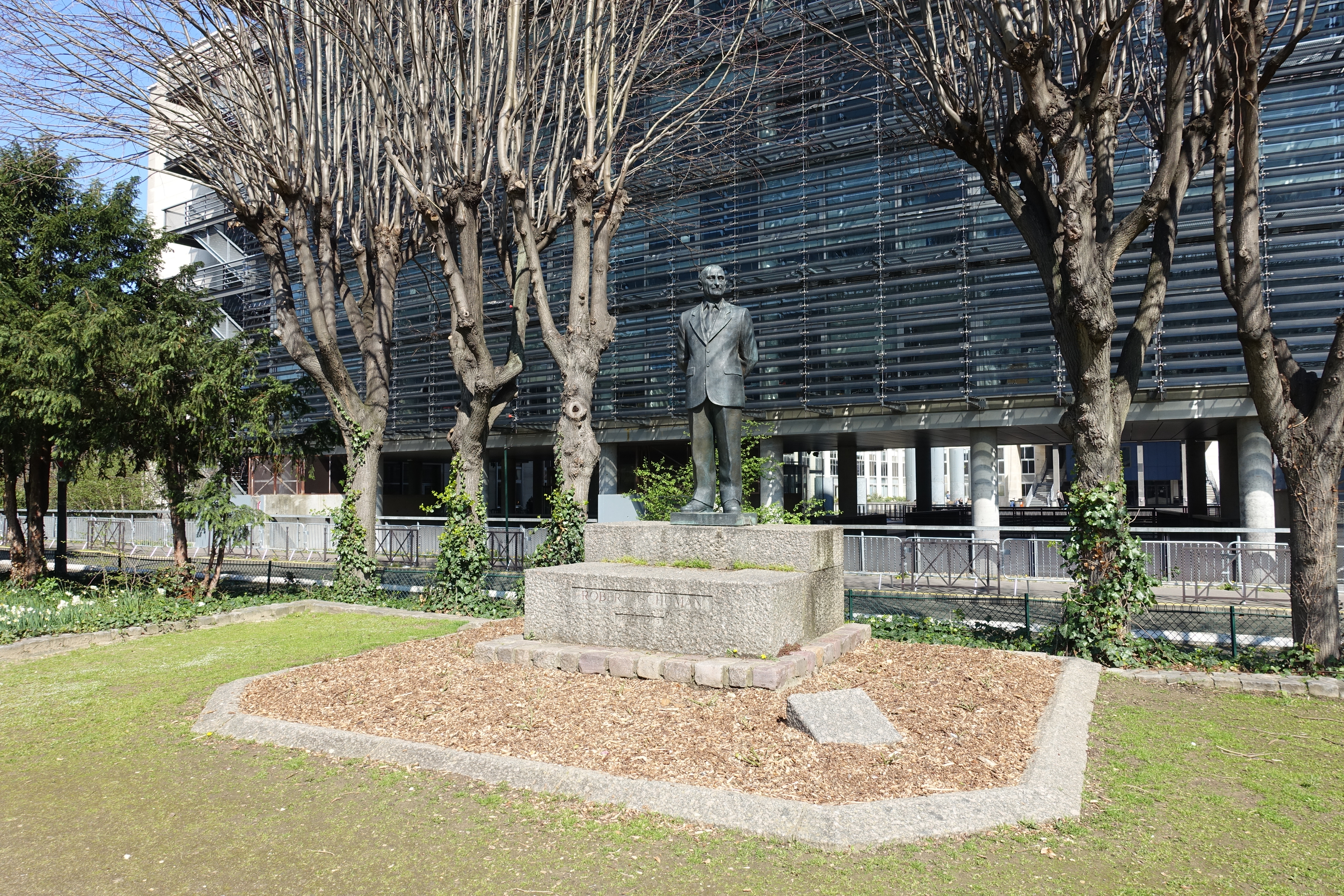 Statue of Robert Schuman @ Square Robert Schuman @ Paris